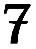 A hand written seven with a slash through it. The 7 was Kozuka Mincho Pro B font, the slash through the numeral was drawn in Paint